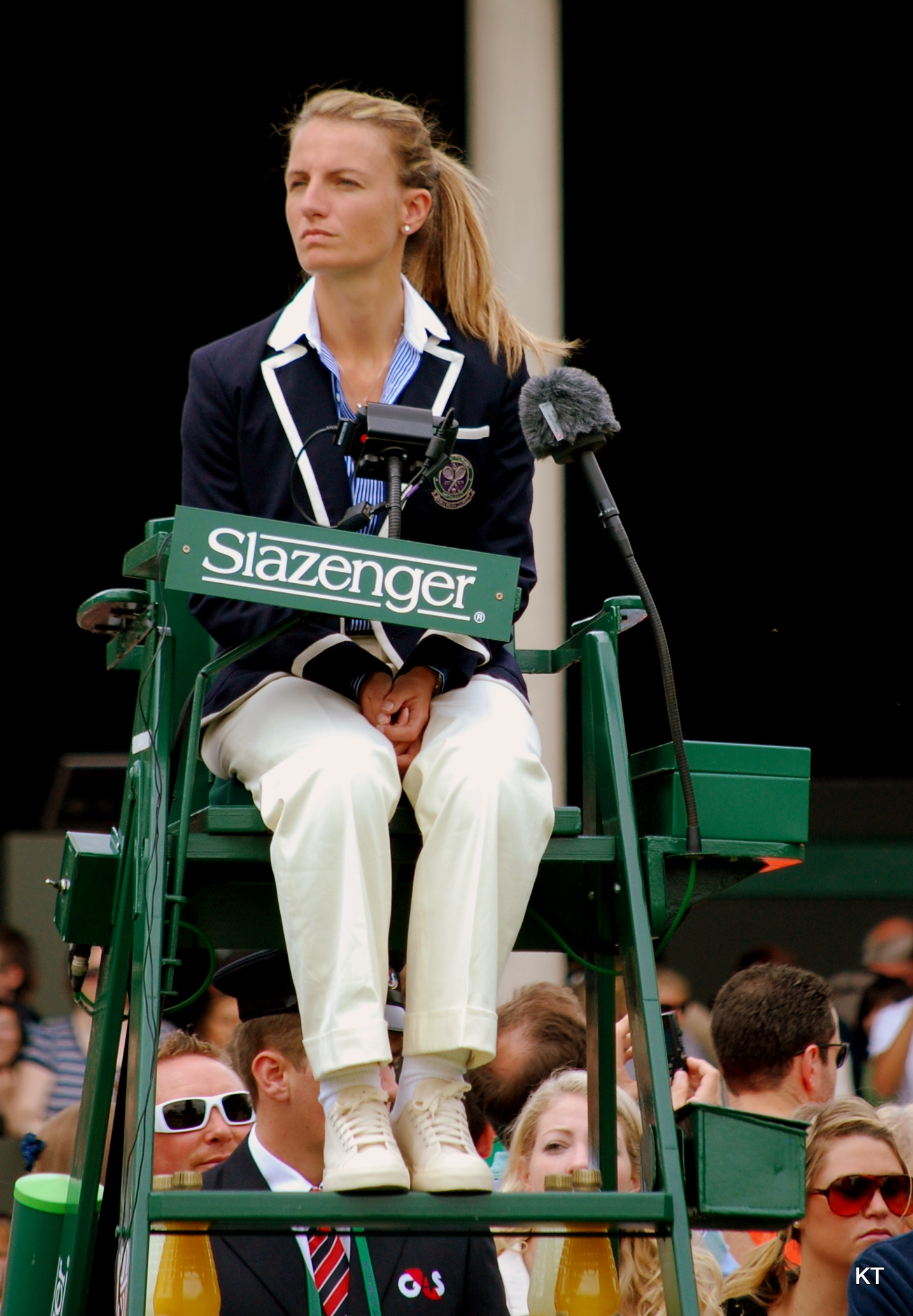 Umpire Eva Asderaki ready for the first match on Court 5, between Pablo Andujar and Ryan Sweeting. Day 1 of Wimbledon 2011.